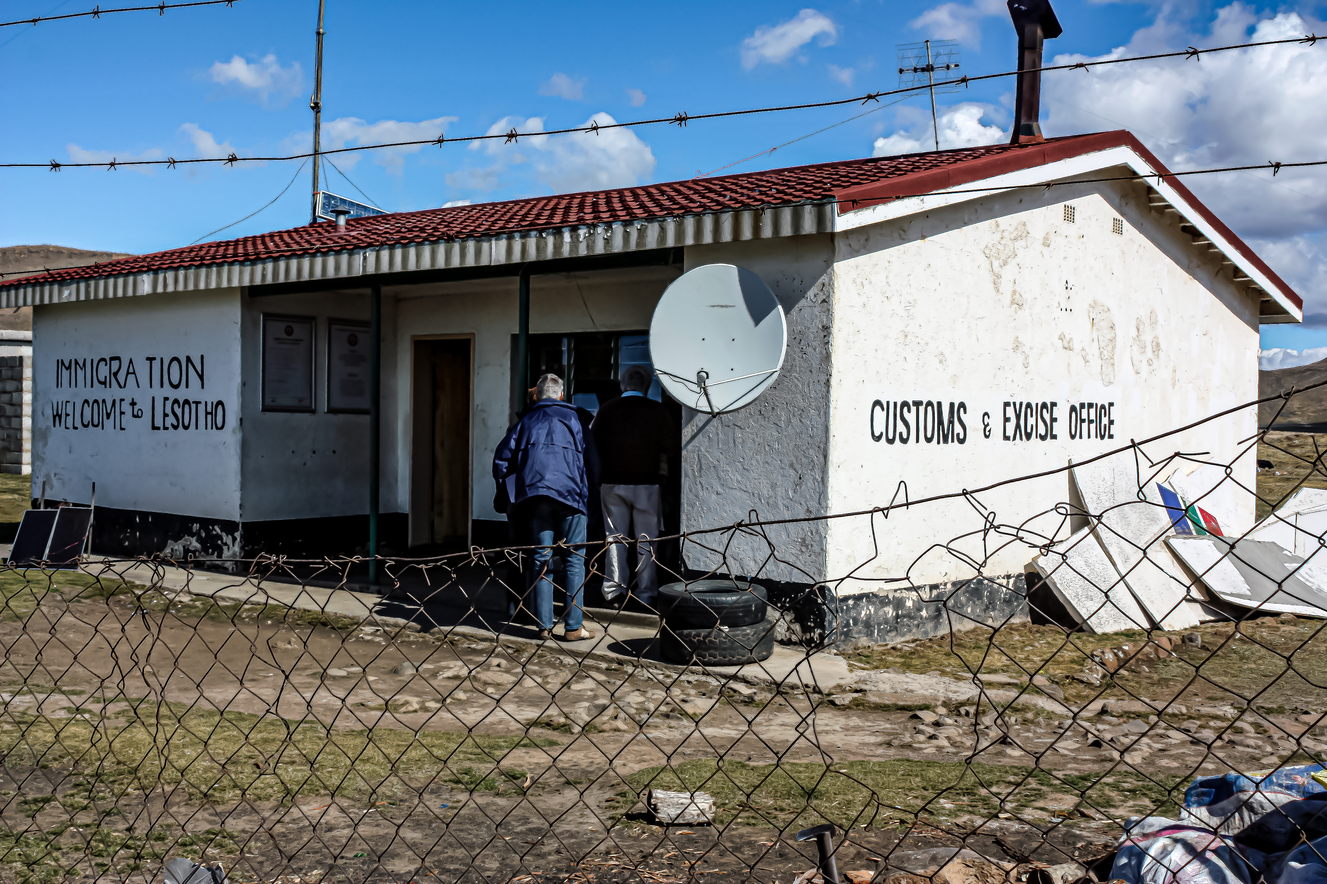 This is an image with the theme "Africa on the Move or Transport" from: Lesotho